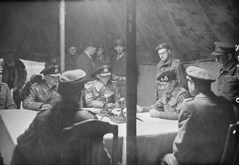 Field Marshal Bernard Montgomery signing the Instrument of Surrender of the German Armies in the northern part of germany at Lüneberg Heath „Timeloberg“.